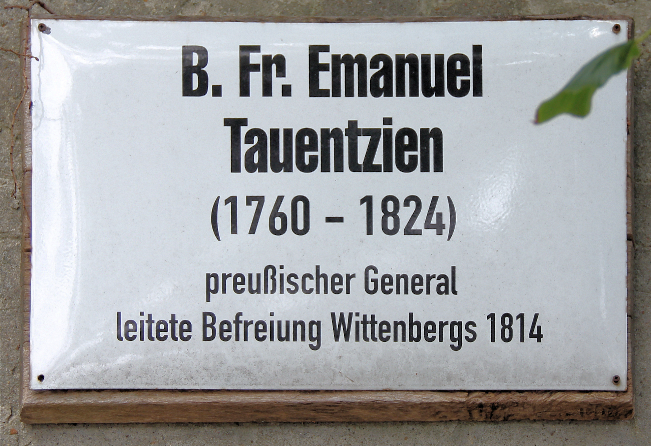 Memorial plaque, Bogislav Friedrich Emanuel von Tauentzien, Schloßplatz, Lutherstadt Wittenberg, Germany Koordinate:51°51′59″N 12°38′18″E / 51.86639°N 12.63833°E